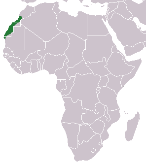 Saharan Shrew (Crocidura tarfayensis) range